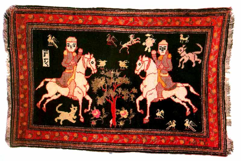 Ovchulug azeri rug, XIX c. Karabakh school, State Museum of Azerbaijan Carpet and Applied Art